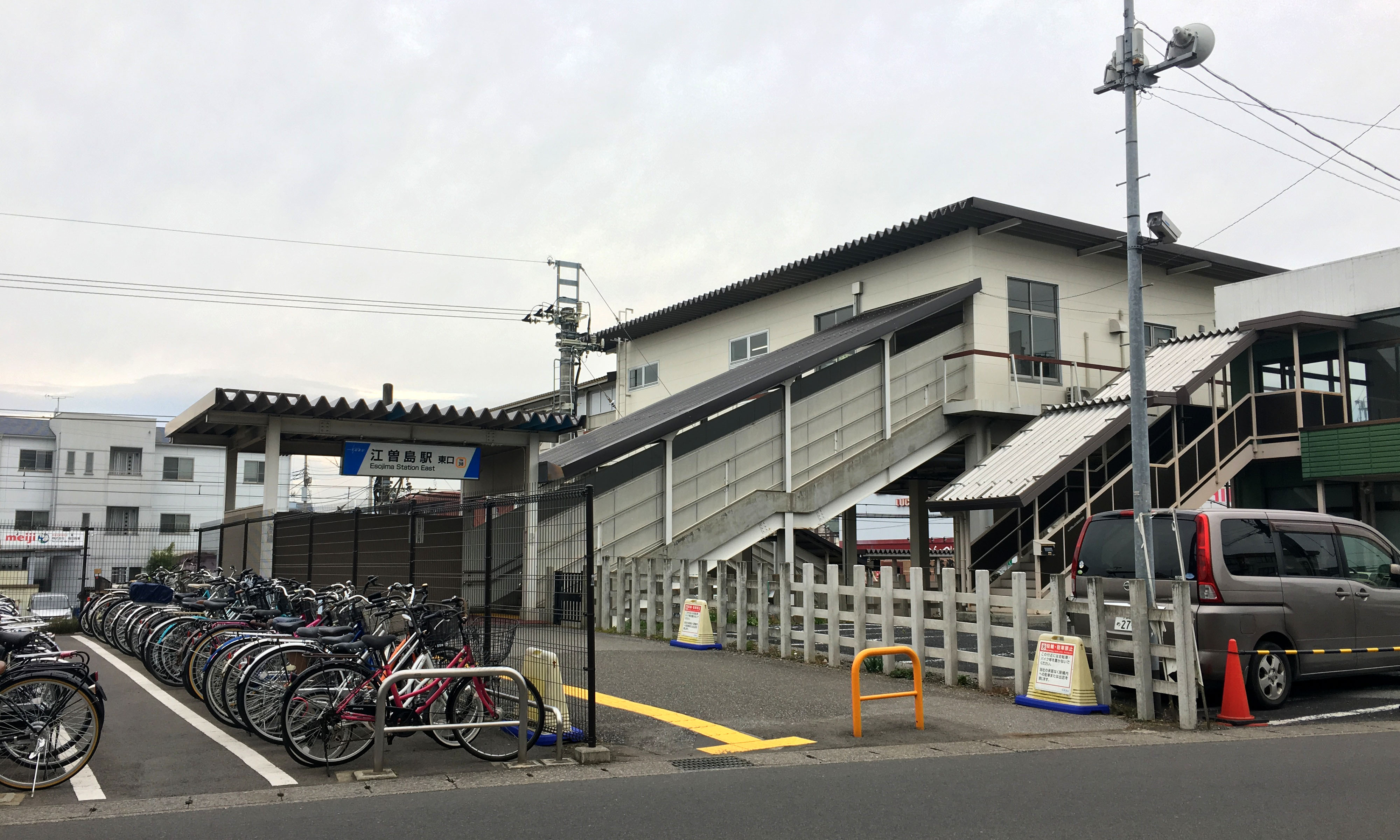 Esojima Station east entrance (Tōbu Utsunomiya Line in Japan)